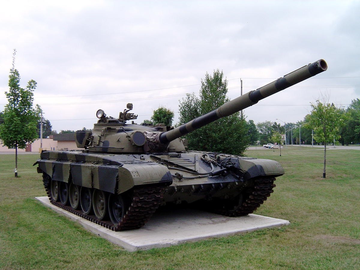 T-72 tank (donated by Germany, from the army of East Germany) Worthington Tank Museum at CFB Borden (Ontario, Canada).